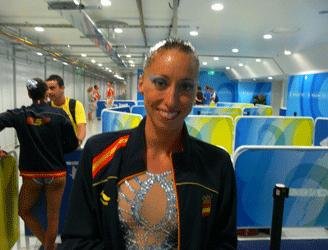 Gemma Mengual, Spanish synchronized swimmer.